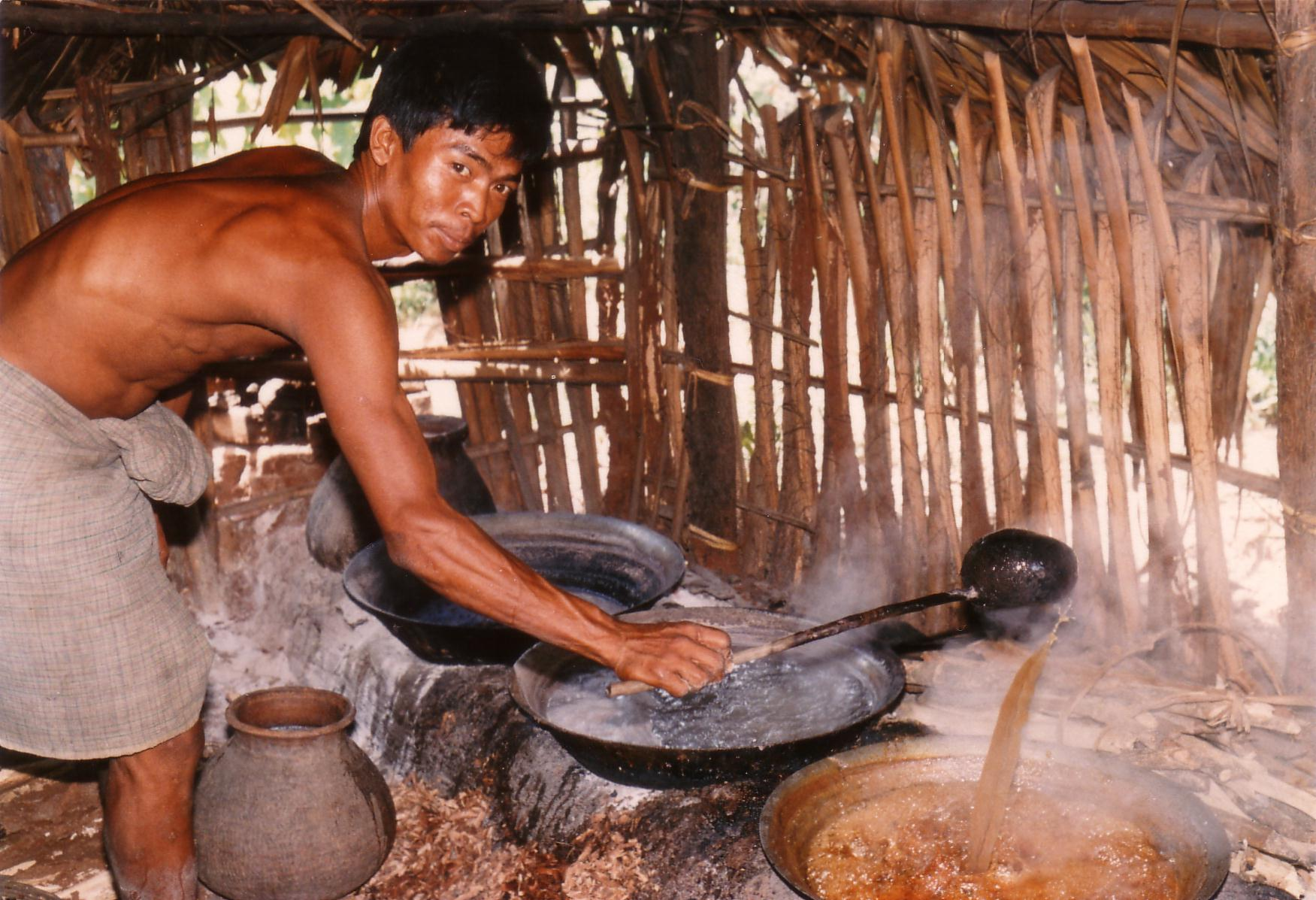 Boiling toddy palm syrup to make jaggery in Myanmar